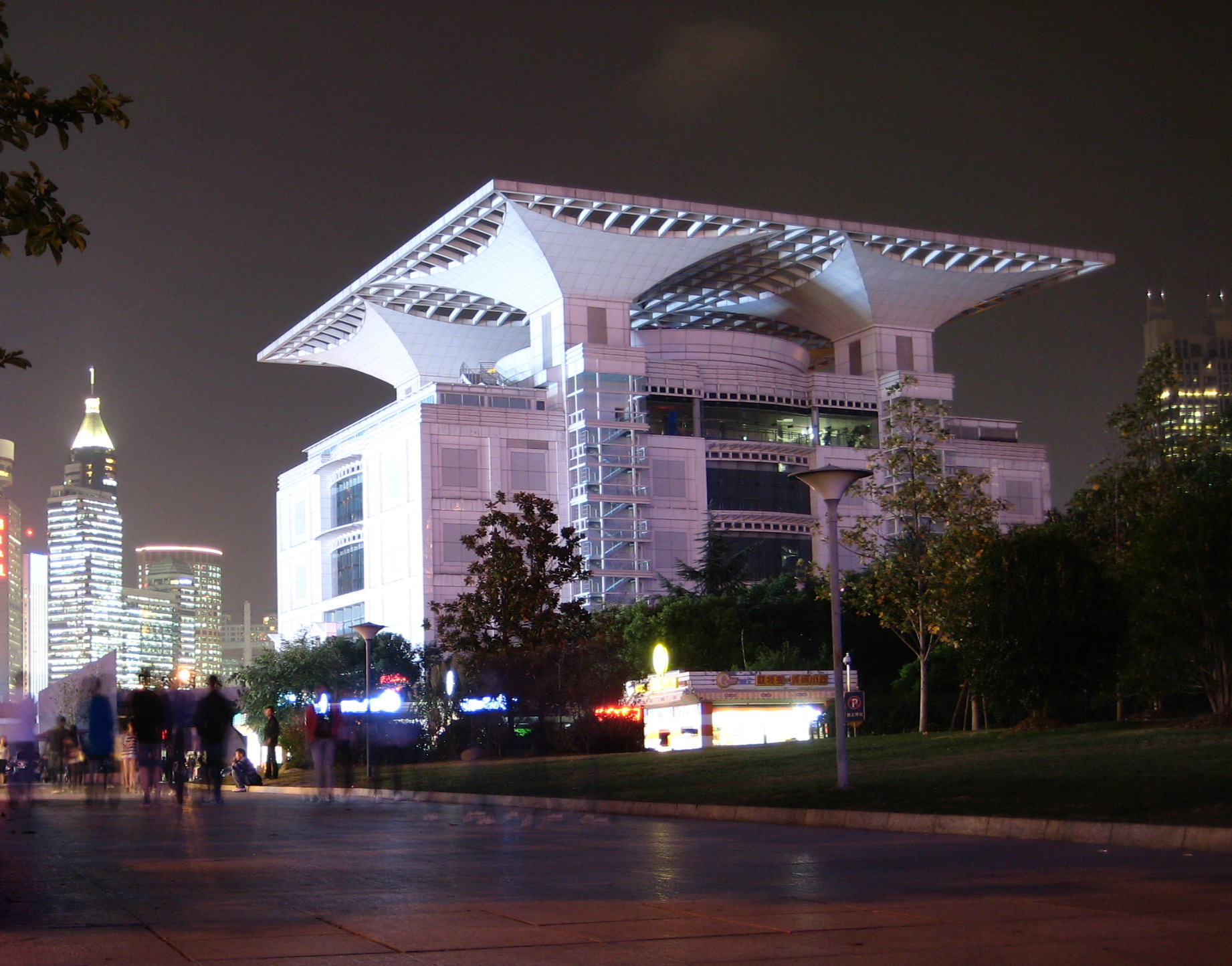 Shanghai Urban Planning Exhibition Center at night